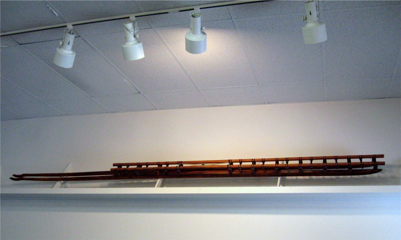 Reproduction of a Hawaiian Holualoa sled, a sport involving sliding down lava rock courses into the ocean. On display in the Keauhou museum.